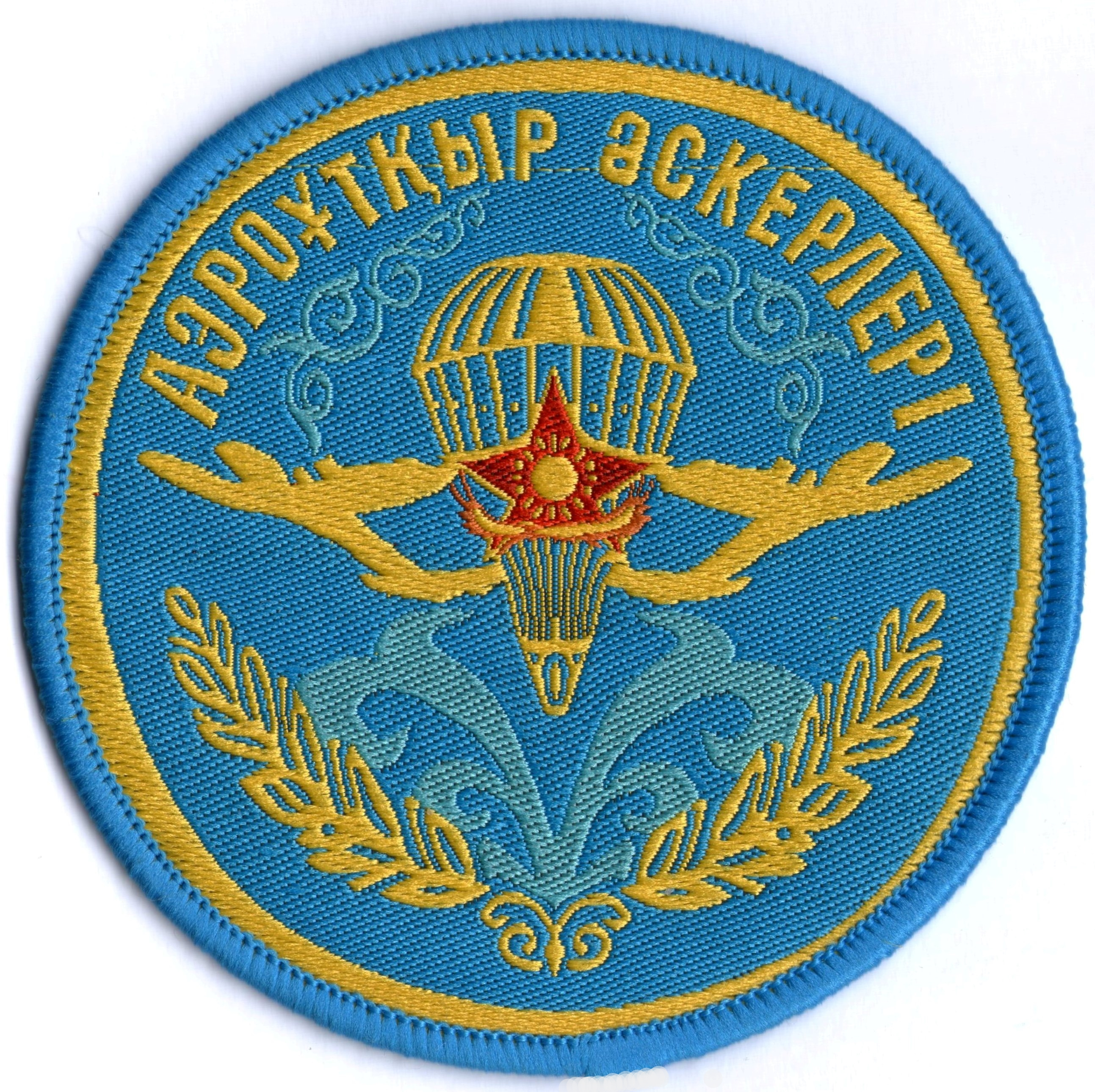 Kazakh Airmobile Forces Shoulder Sleeve Insignia